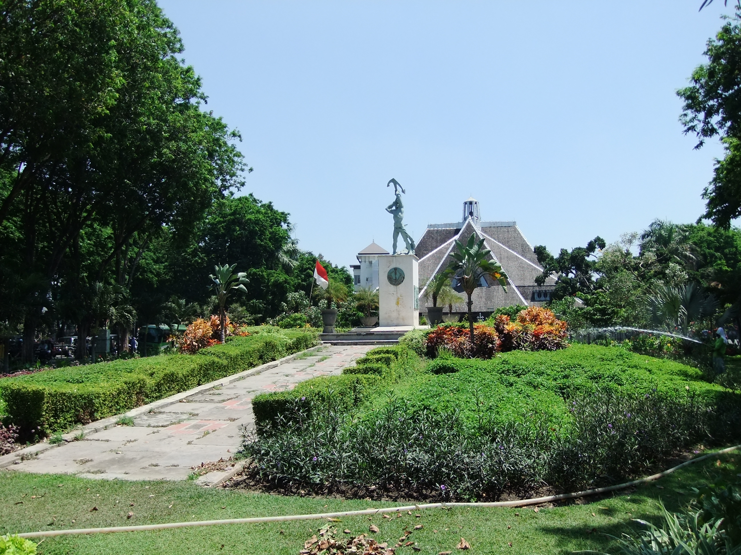 Bahari Monument, Jalan Darmo, Surabaya